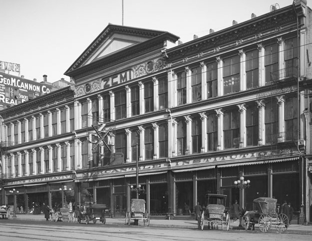 Zion's Cooperative Mercantile Institution (ZCMI), downtown SLC, 1910. Commercial photo taken on assignment, published circa 1910.